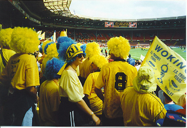 Inside the "Old" Wembley Stadium.. Woking fans at the FA Trophy Final.